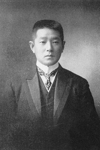 Hiroharu Yoshikawa